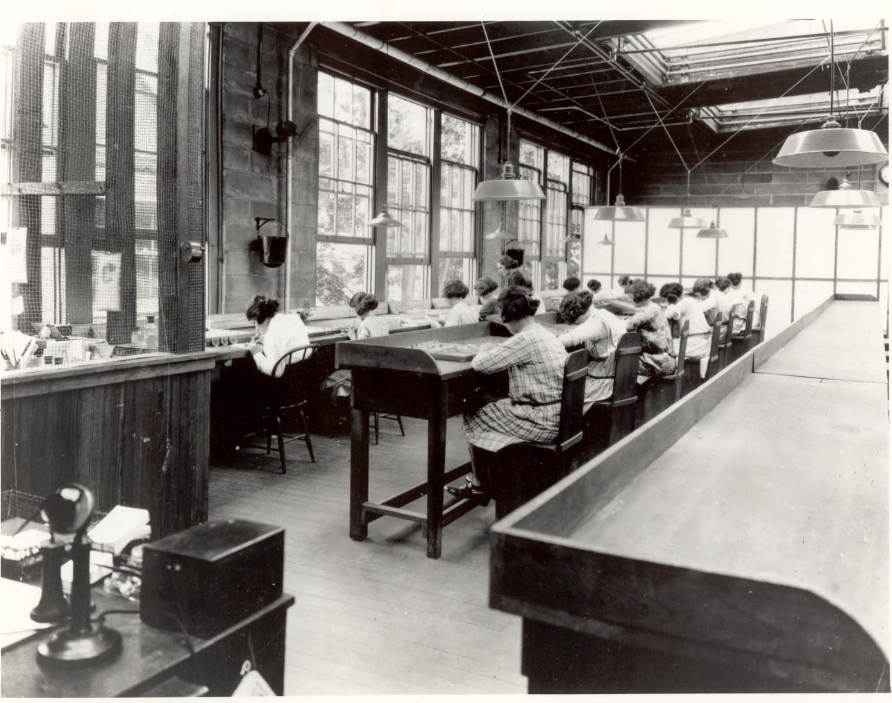 Radium Girls work in a factory of the United States Radium Corporation.